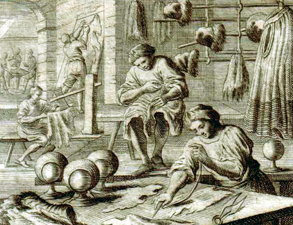 Furriers and hatmakers. Seventeenth century (Dutch).